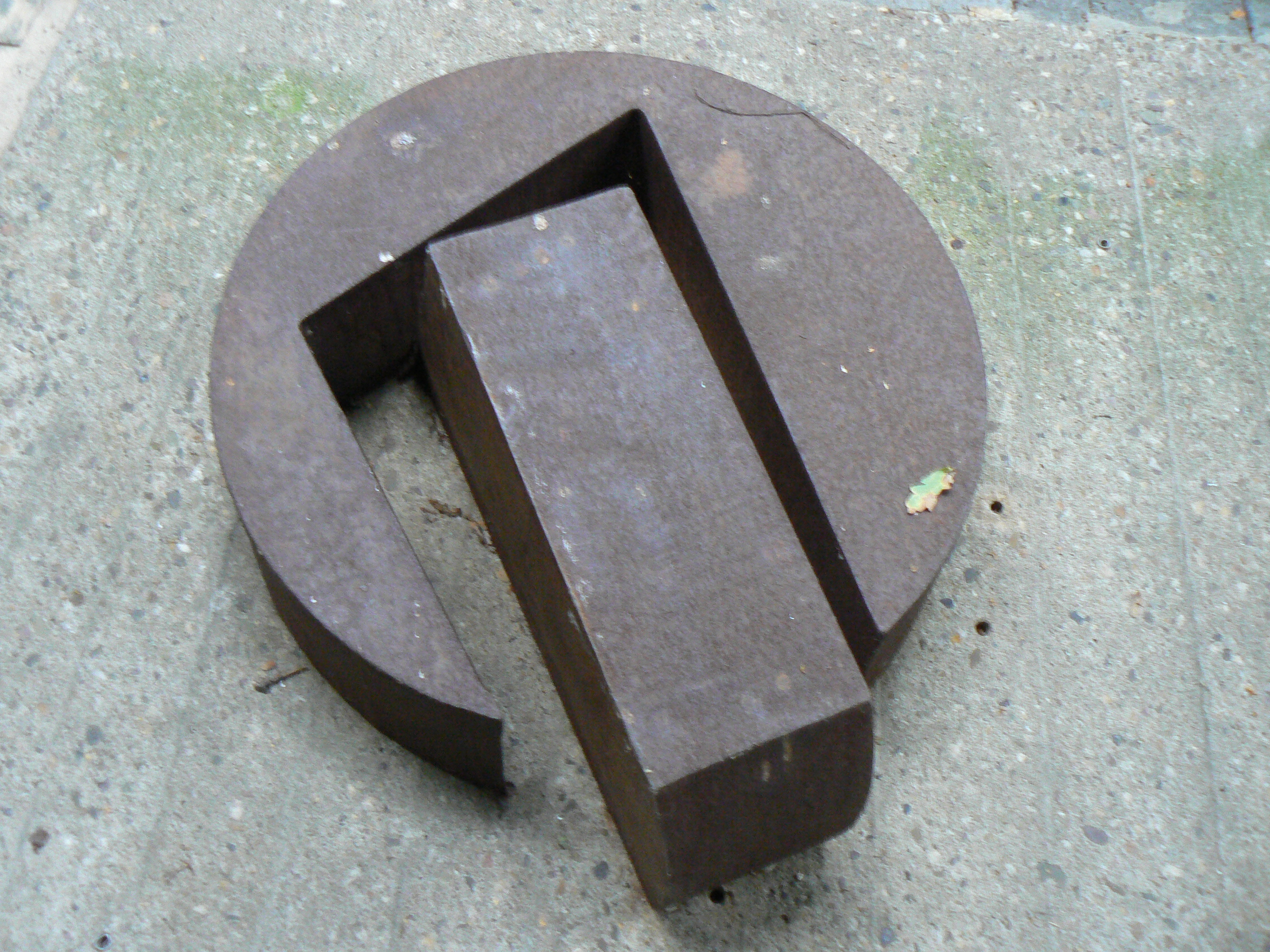 Location: city center Marl/Germany Collection: Skulpurenmuseum Glaskasten, Marl Sculpture: Untitled 1979 Sculptor: Wolfgang Nestler